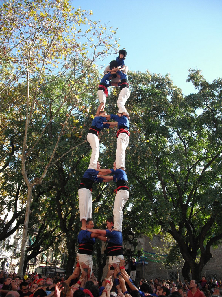 First tower of seven floors of Castellers d'Esplugues, made on november 2009